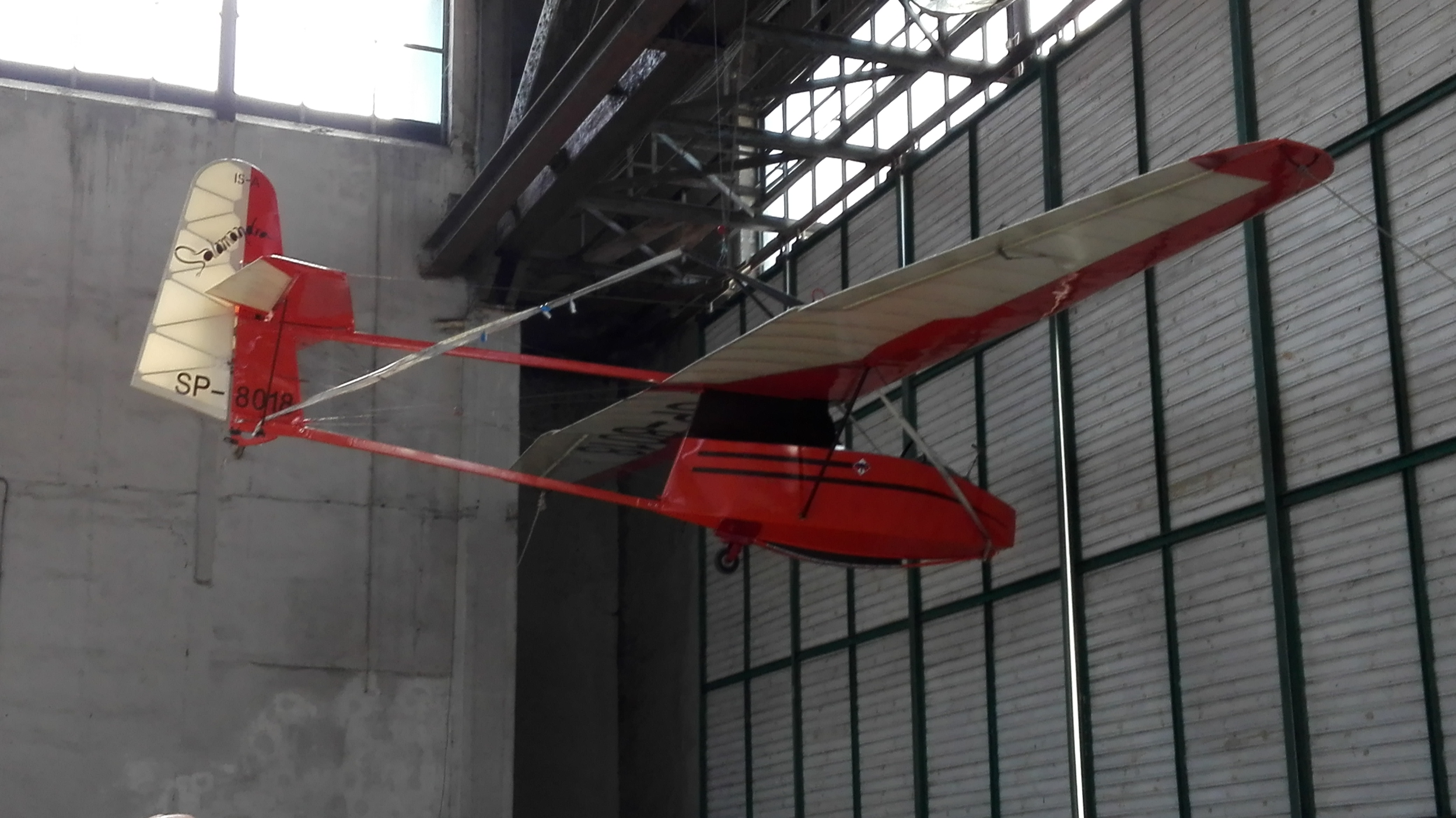 IS-A Salamandra